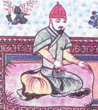 Tugrul bey founder of Seljuk Empire